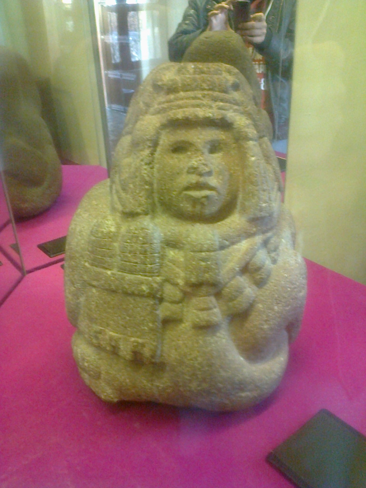 chicomecoatl statue from Chimalhuacan's temple.